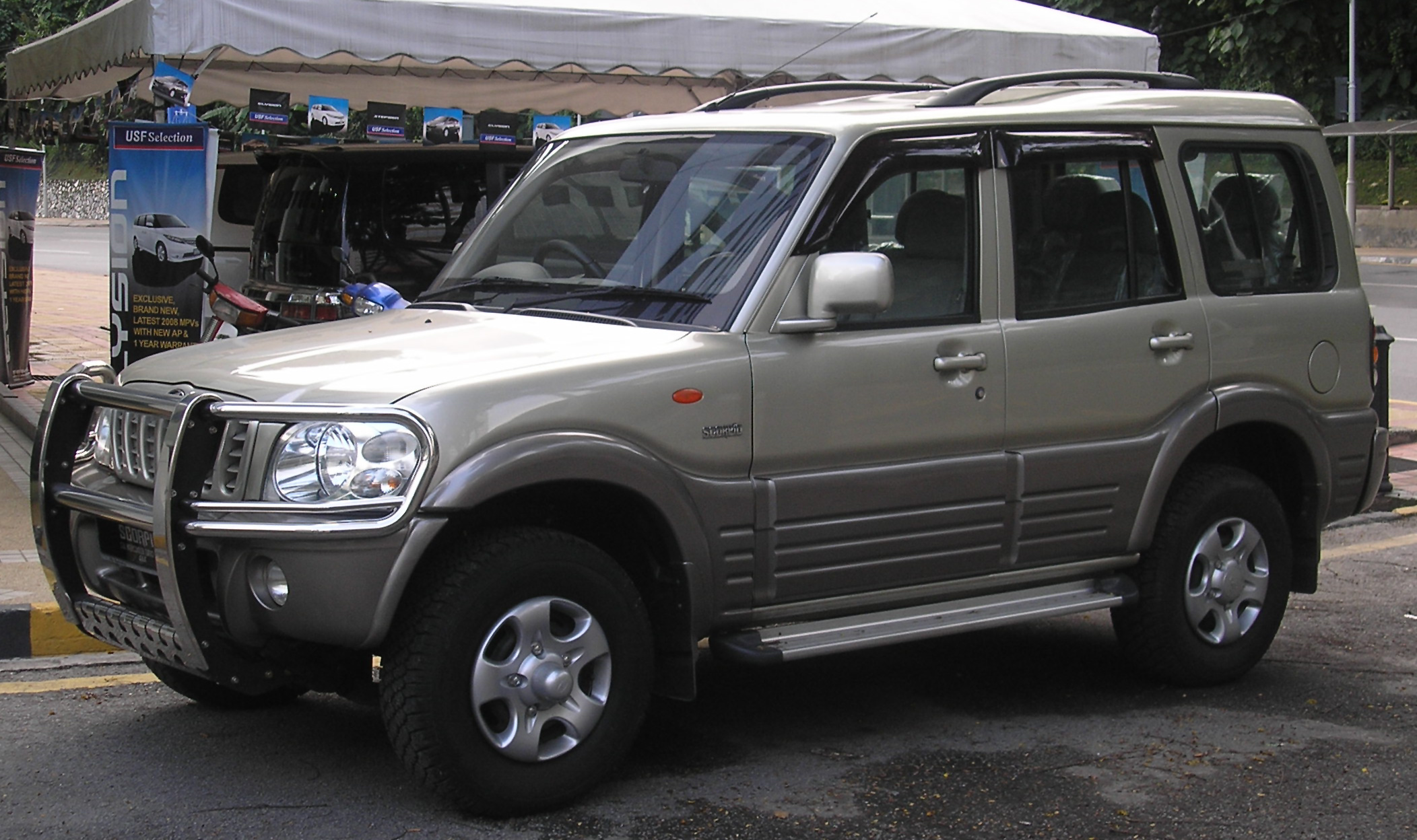 Front quarter view of a first generation Mahindra Scorpio, at the City Centre, Kuala Lumpur, Malaysia.